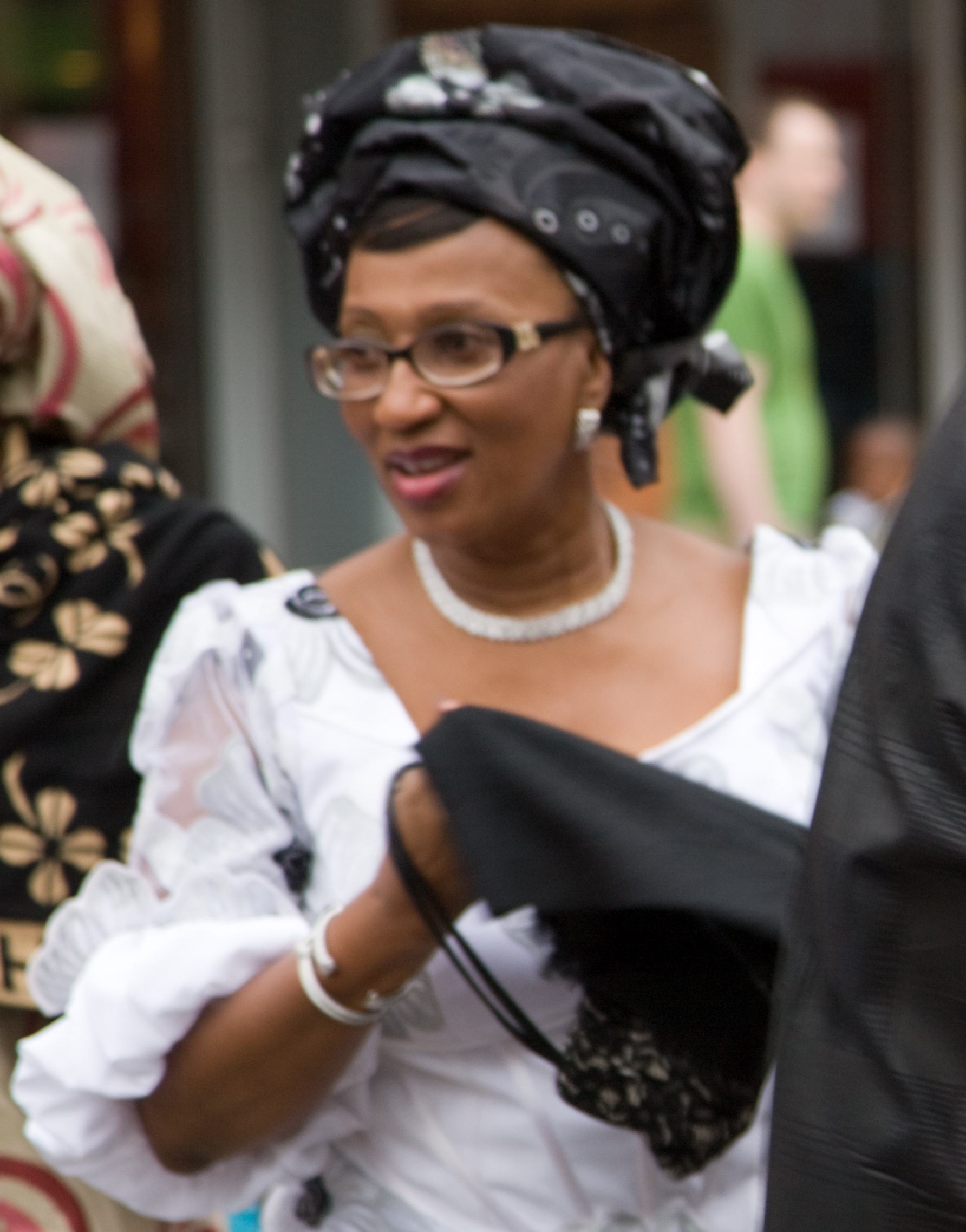 The festival is a traditional annual event organised by the Igbo people of Nigeria in thanksgiving to God for a good harvest and in celebration of numerous other achievements.